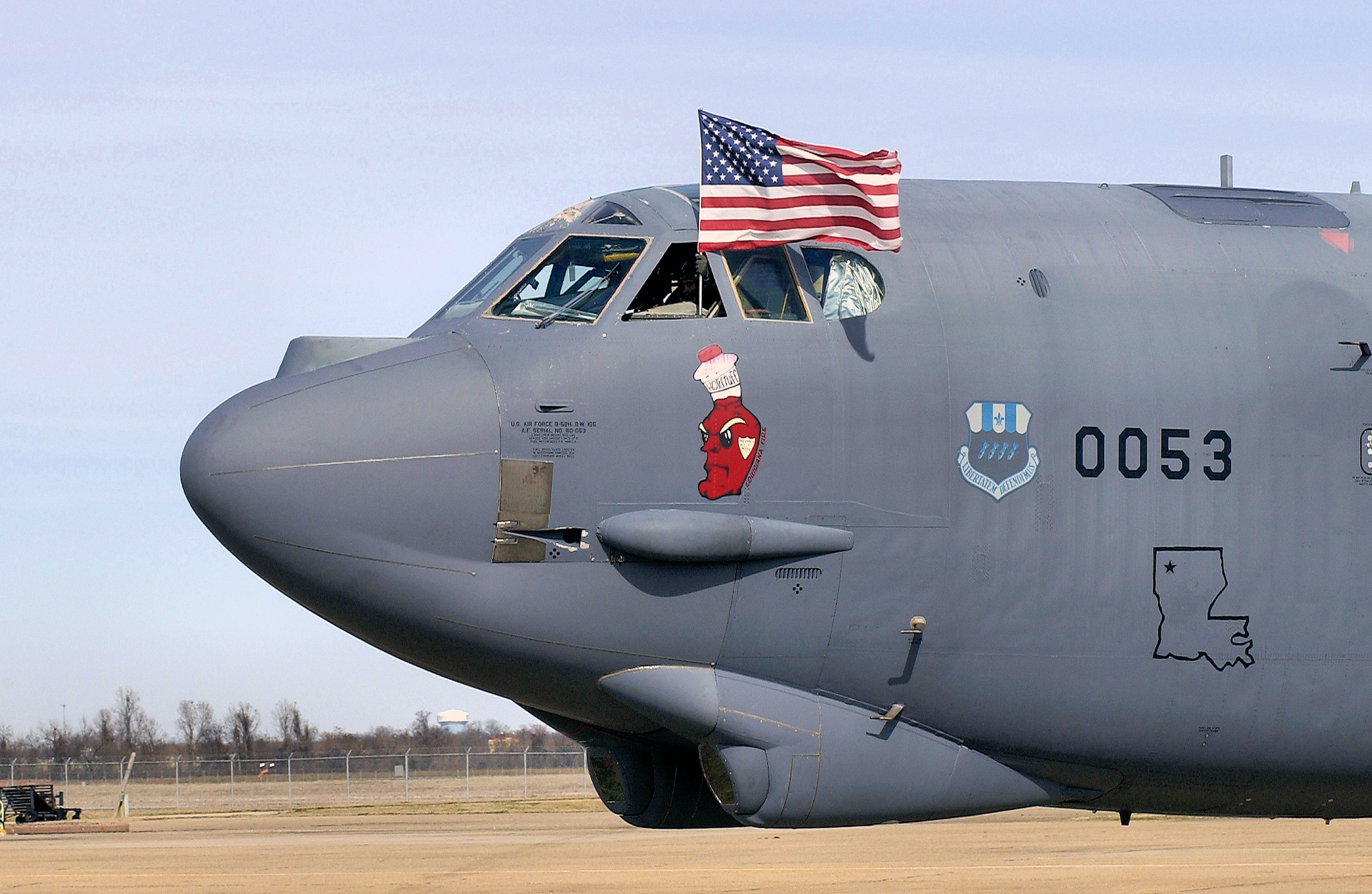 B-52H bomber tail number 60-053 from the 2d Bomb Wing, Barksdale Air Force Base, La. proudly displays the American flag as it taxis out on a local training mission. Aircraft 60-053, call sign RAIDR 21, went down off the coast of Guam July 21, 2008. All six crew members were lost. (USAF Photo by Technical Sergeant Robert J. Horstman) (Released) Nose art is "Louisiana Fire."